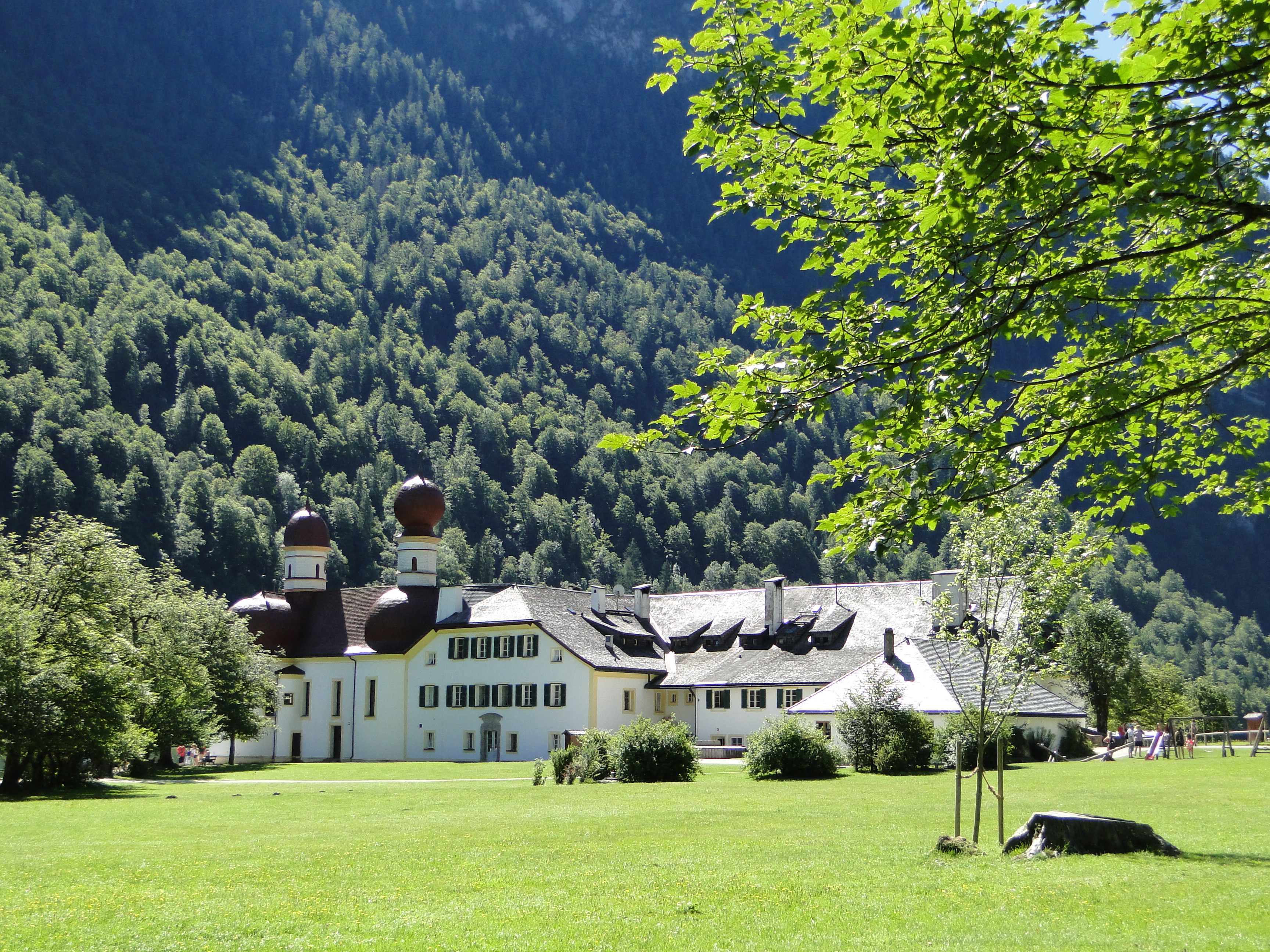 Ensemble of the buildings with Chapel of St Barthelmew on the homonymous peninsula in the Koenigssee (Bavaria - Germany)